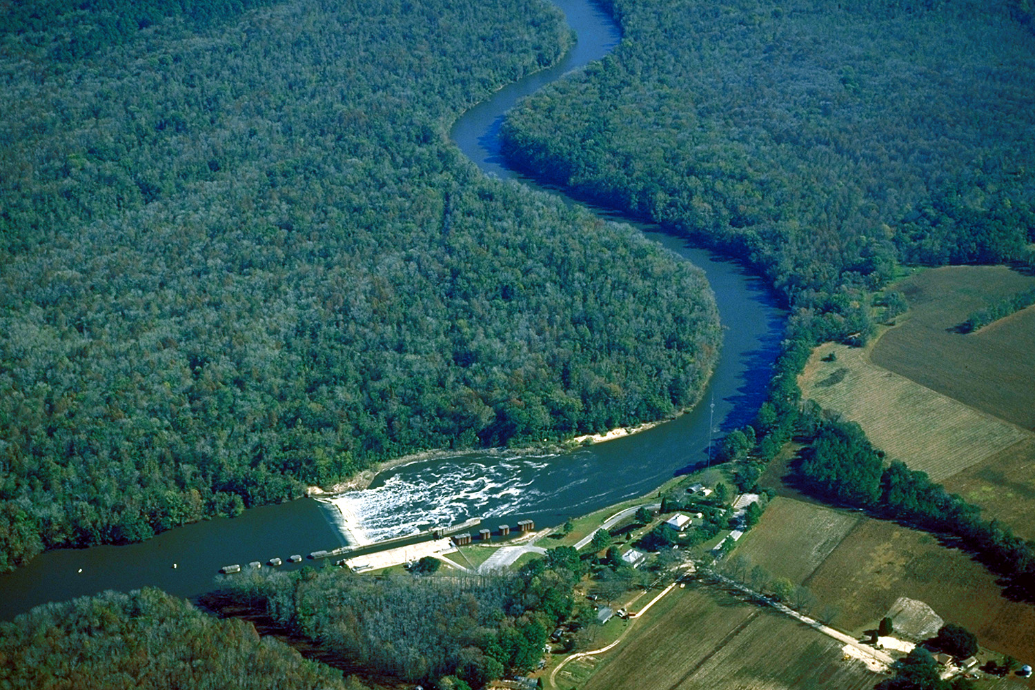 Lock and Dam No. 1 on the Cape Fear River above Wilmington, North Carolina, USA. The lock is near the town of East Arcadia in Bladen County, North Carolina. This lock is the lowest (farthest downriver) of the three locks and dams on the Cape Fear River.